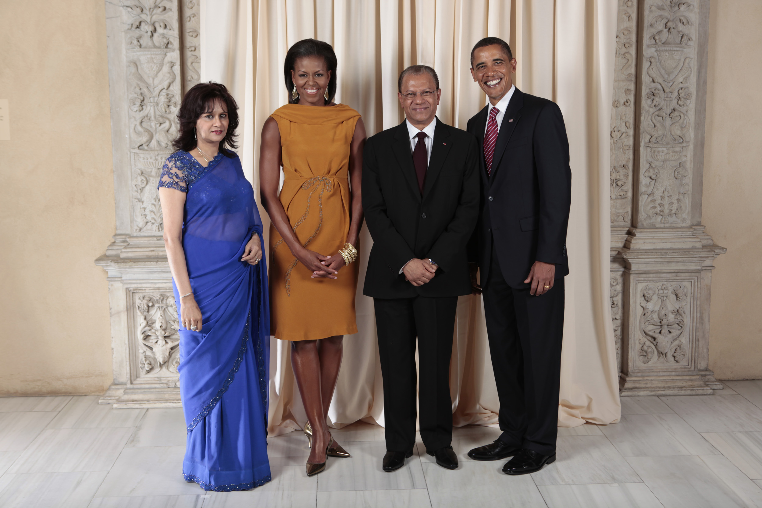 President Barack Obama and First Lady Michelle Obama pose for a photo during a reception at the Metropolitan Museum in New York with Navinchandra Ramgoolam, Prime Minister of the Republic of Mauritius, and his wife, Mrs. Veena Ramgoolam.